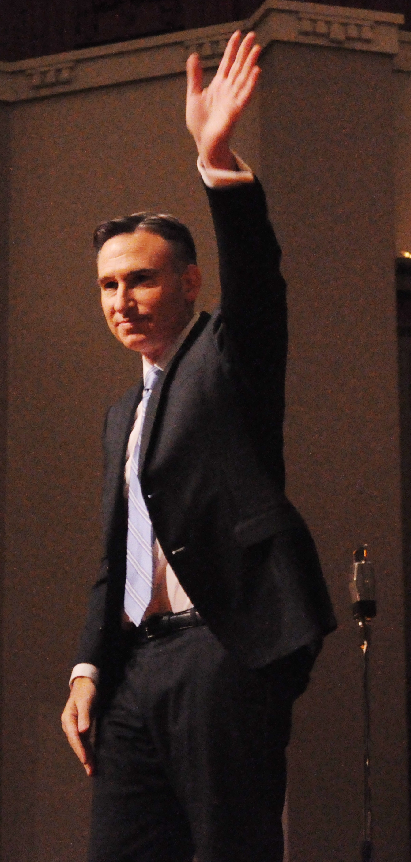 Dow Constantine accepting ovation after his inaugural address as King County Executive, at Daniels Recital Hall (the sanctuary of the former First United Methodist Church), Seattle, Washington.